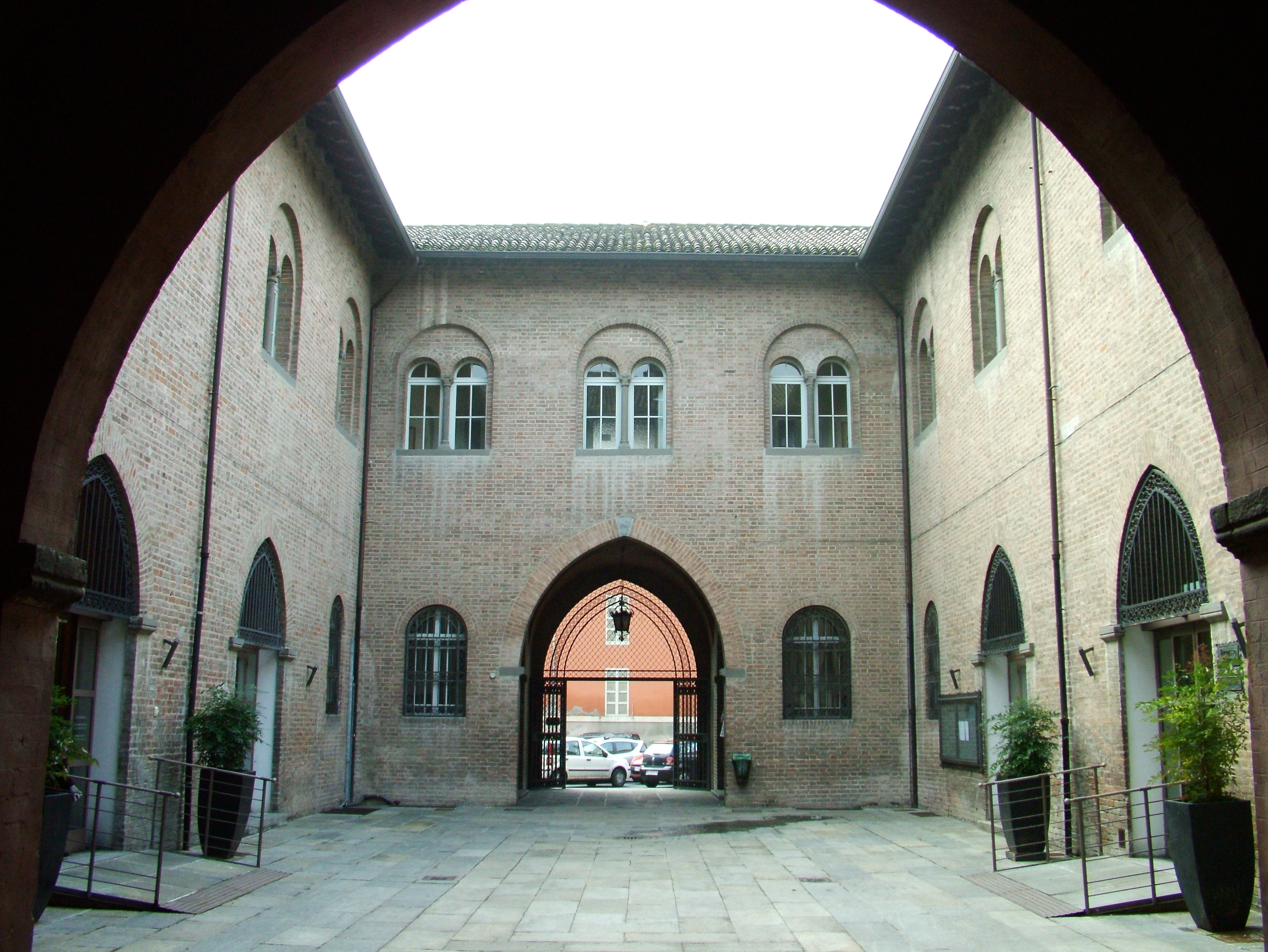 A views from the entrance of piazza Garibaldi in the courtyard of city hall of Fidenza, province of Parma, Italy.